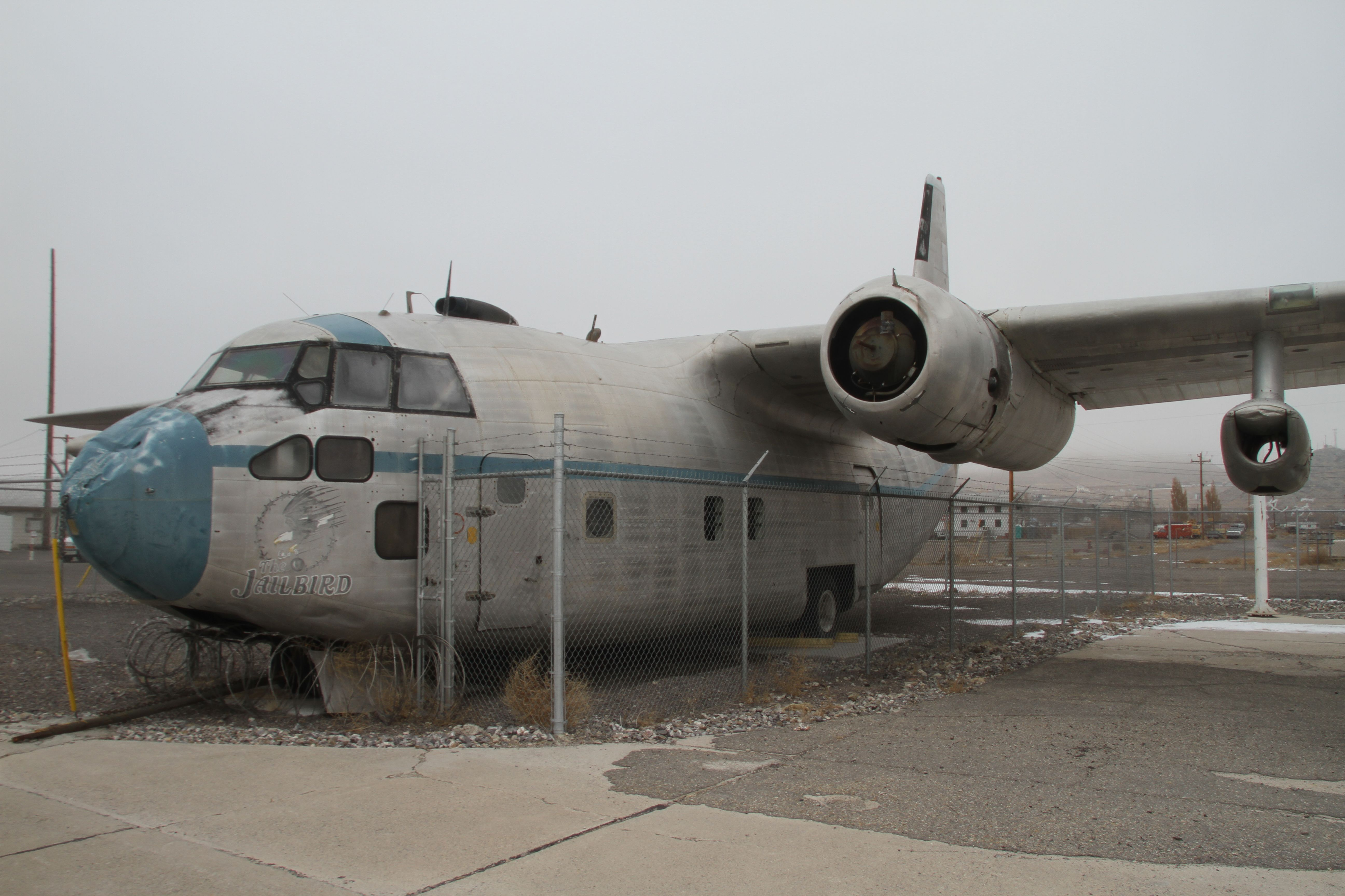 "Jailbird" movie model used in Con Air|Con Air (1997).